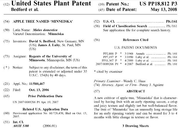 Patent No.: US PP18,812 P3 obtained May 13, 2008 by inventors David S. Bedford and James J. Luby. It is for the varietal denomination "Minneiska".